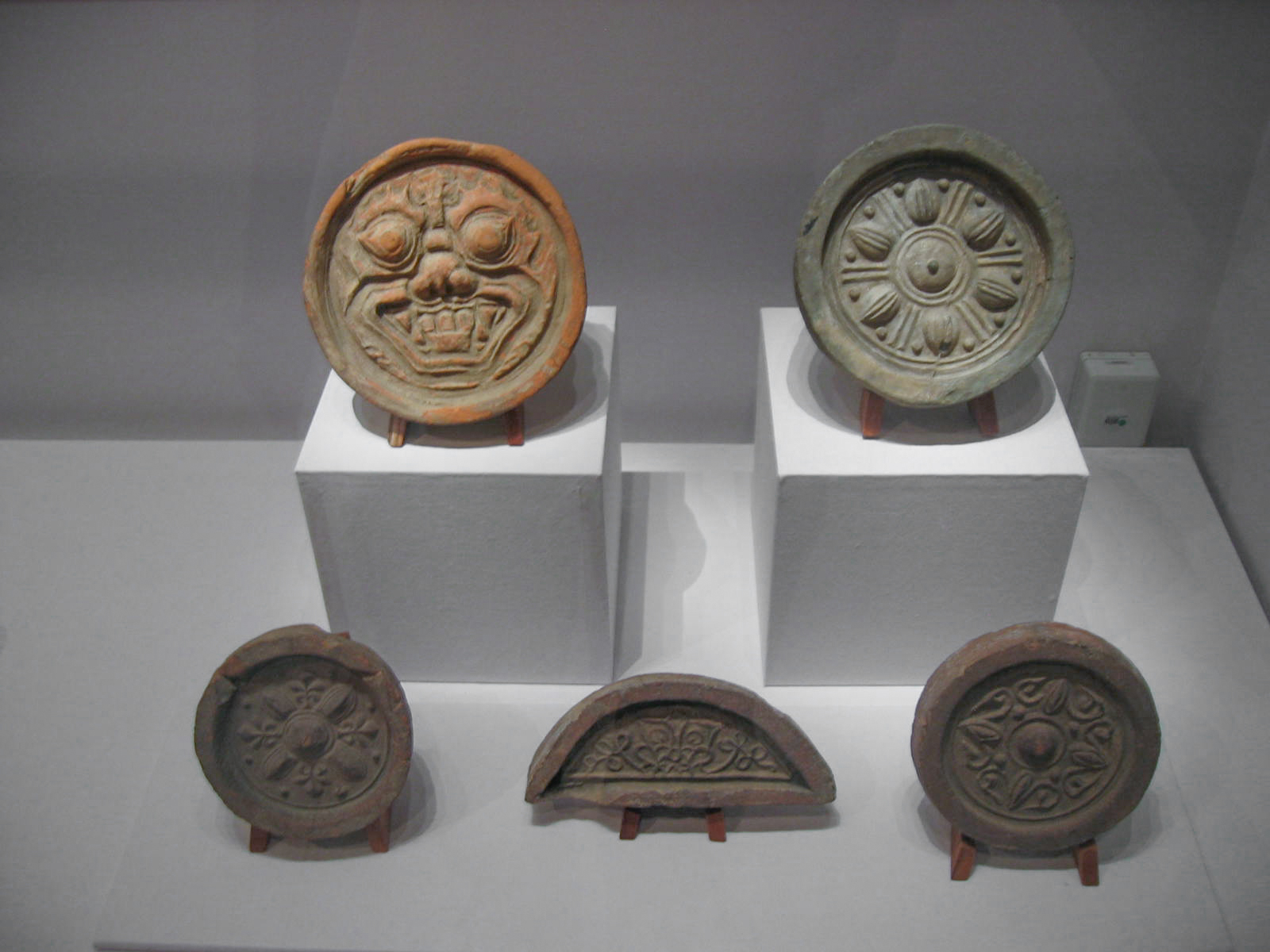 Goguryeo roof tiles, Three Kingdoms of Korea period.